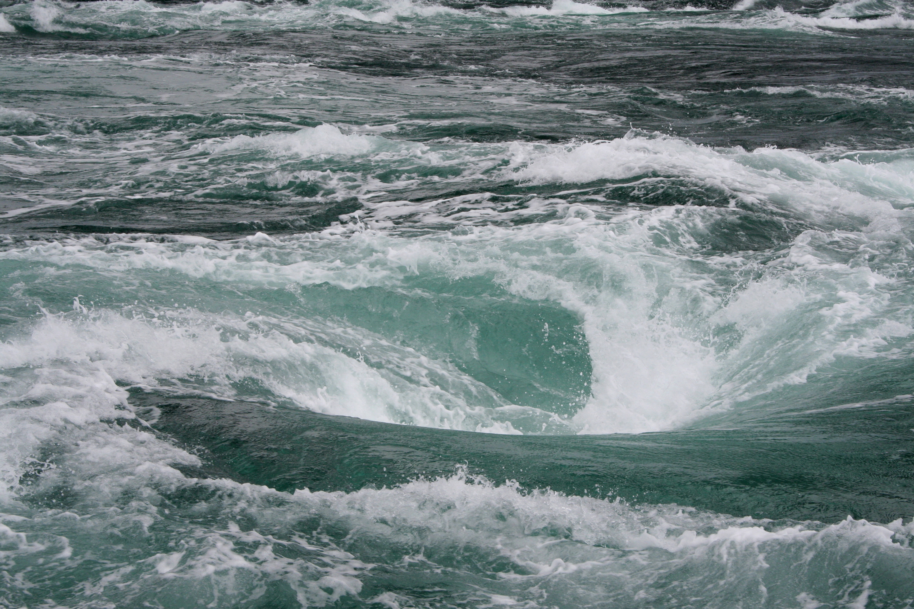 This is the Naruto Whirlpools taken on 4-21-2008 from a boat which cruises directly to the whirlpools.